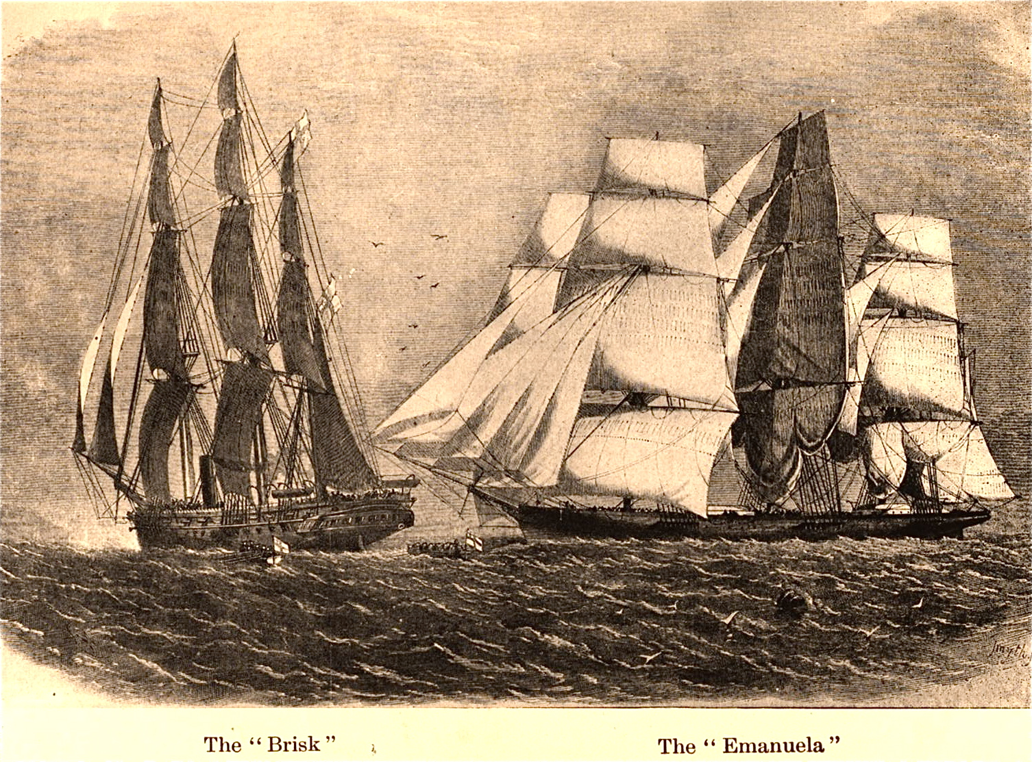 HMS Brisk and Emanuela. Capture of slave ship, also known as Manuela, an 1854 extreme clipper originally named Sunny South.